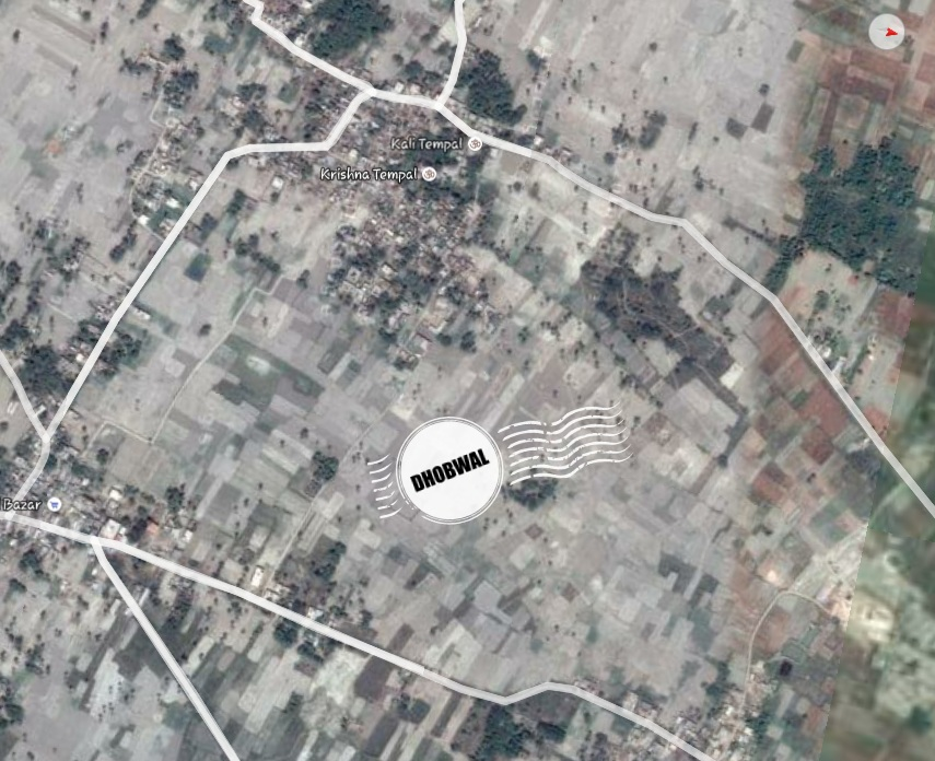 View the village